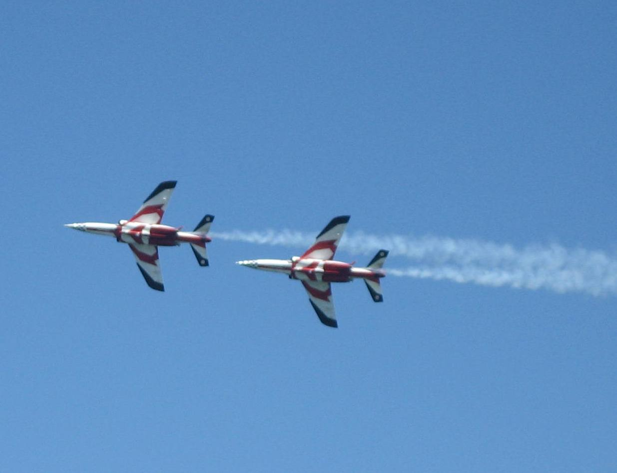 Asas de Portugal, Vigo International Airshow, Spain.